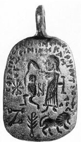 Bronze pendant amulet of the early Byzantine era (6th/7th century), depicting the kneeling demon Abyzou whipped by Arlaph (an arcane name for the archangel Raphael). The inscriptions on this side of the amulet read: σφαγὶς Σολομ[ῶν]ος μετὰ τοῦ φοποῦ[ν]το ("[the] Seal of Solomon [is] with the bearer [of the amulet]") and ἐγώ εἰμι Νοσκαμ ("I am Noskam"). The reverse (not shown) has a longer charm written within an ouroboros. Amulet described by Jeffrey Spier, "Medieval Byzantine Magical Amulets and Their Tradition," Journal of the Warburg and Courtauld Institutes 56 (1993) 25-62.